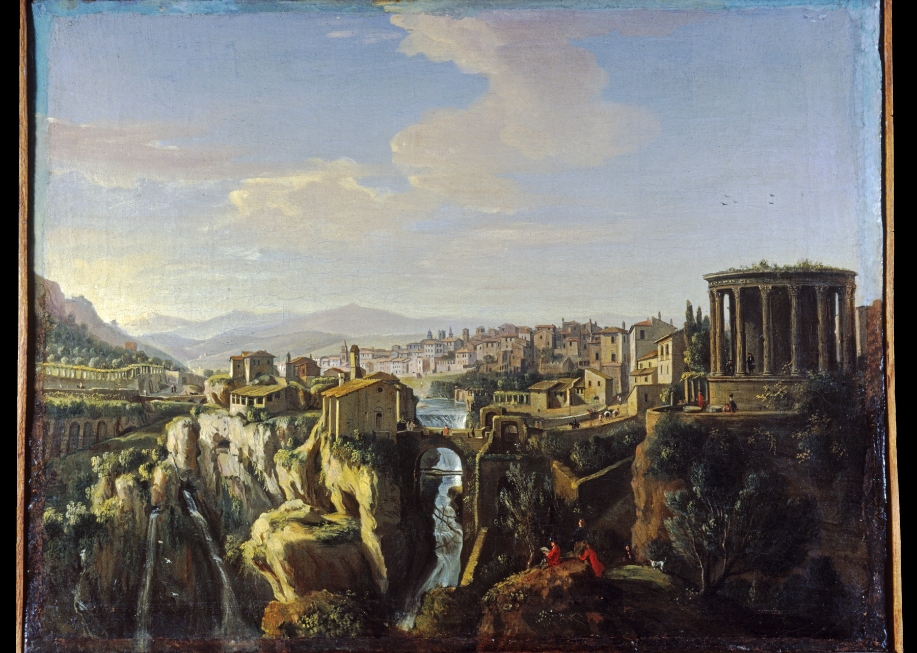 The high viewpoint allows the artist to show much of the town of Tivoli near Rome, featuring the famous circular, 1st-century BC Temple of Vesta and the bridge over the thundering falls of the Tiber River. This view, combining a heroic element of nature, antiquity, and the increasingly popular theme of the city, was first defined as an almost iconic image of Italy for northern artists by the great 16th-century Flemish artist Pieter Bruegel. Van Wittel was among the Dutch landscape painters who went to Italy, and he settled there in 1674. His focus on the topography of the landscape and the small size of many of his paintings made his works attractive to tourists as souvenirs of their visit.